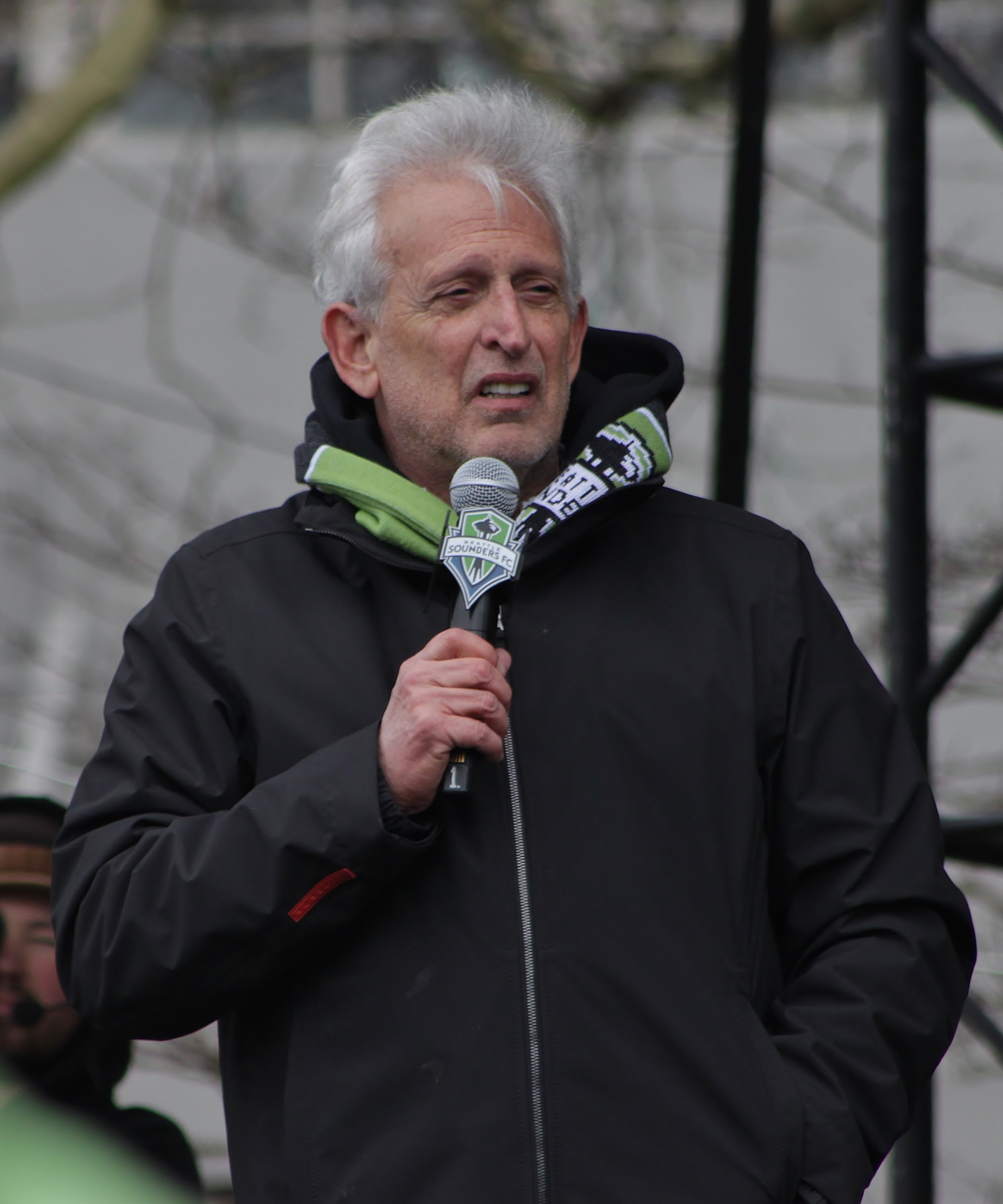 Joe Roth, a minority owner of the Seattle Sounders, speaking at a victory rally at Seattle Center following the team's MLS Cup 2016 victory.